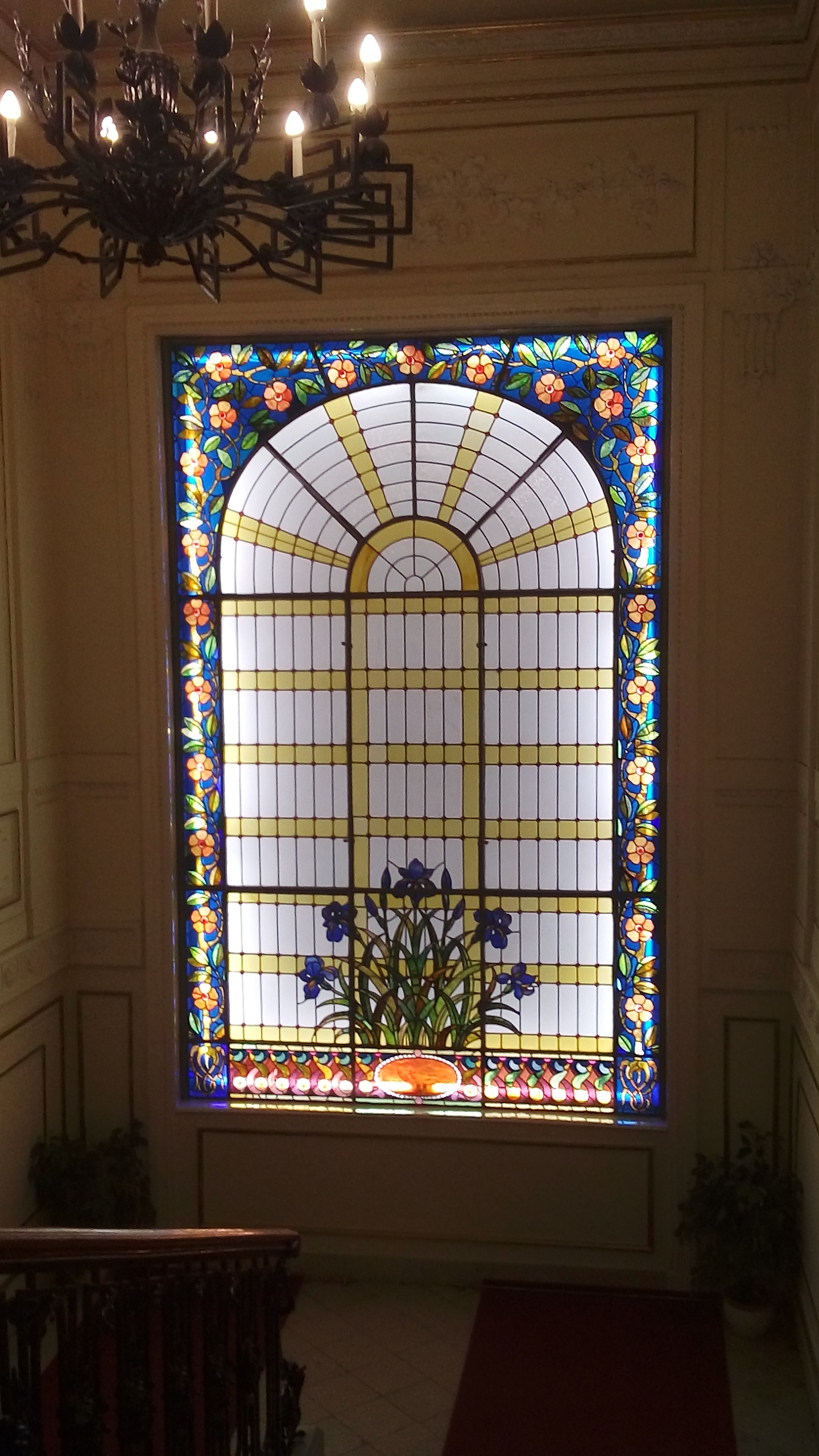 Decorative window in the Staircase